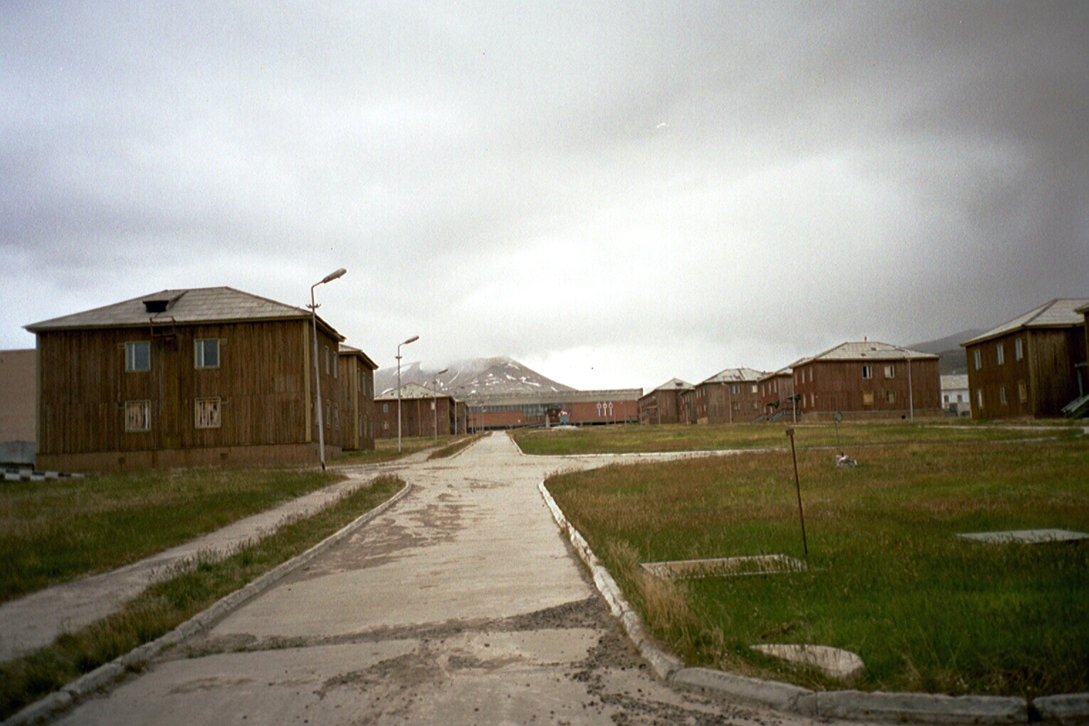 Main street with wooden Siberian-style barracks in the ghost town of Pyramiden, Svalbard. Taken by myself, Eckhard Pecher, in July 2005 Mention of my name is not necessary within the Wikis.